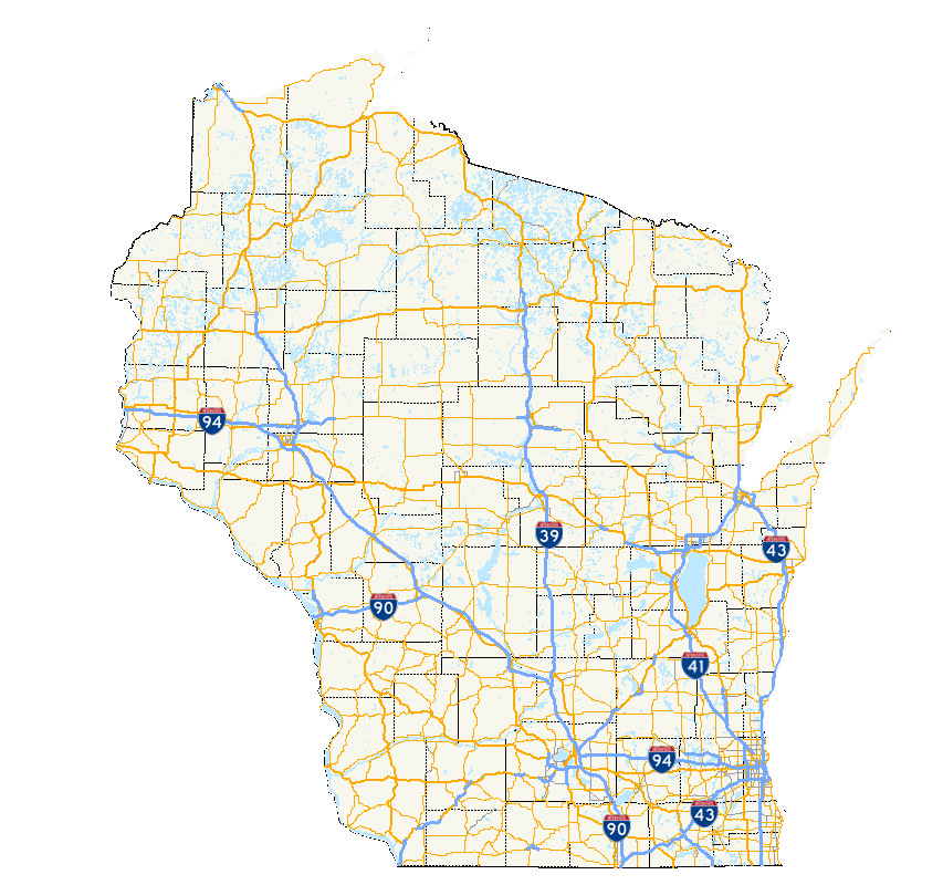 A complete layout of the Wisconsin highway system. Limited Access roads marked in blue, expressways thick orange. Interstates roughly marked.